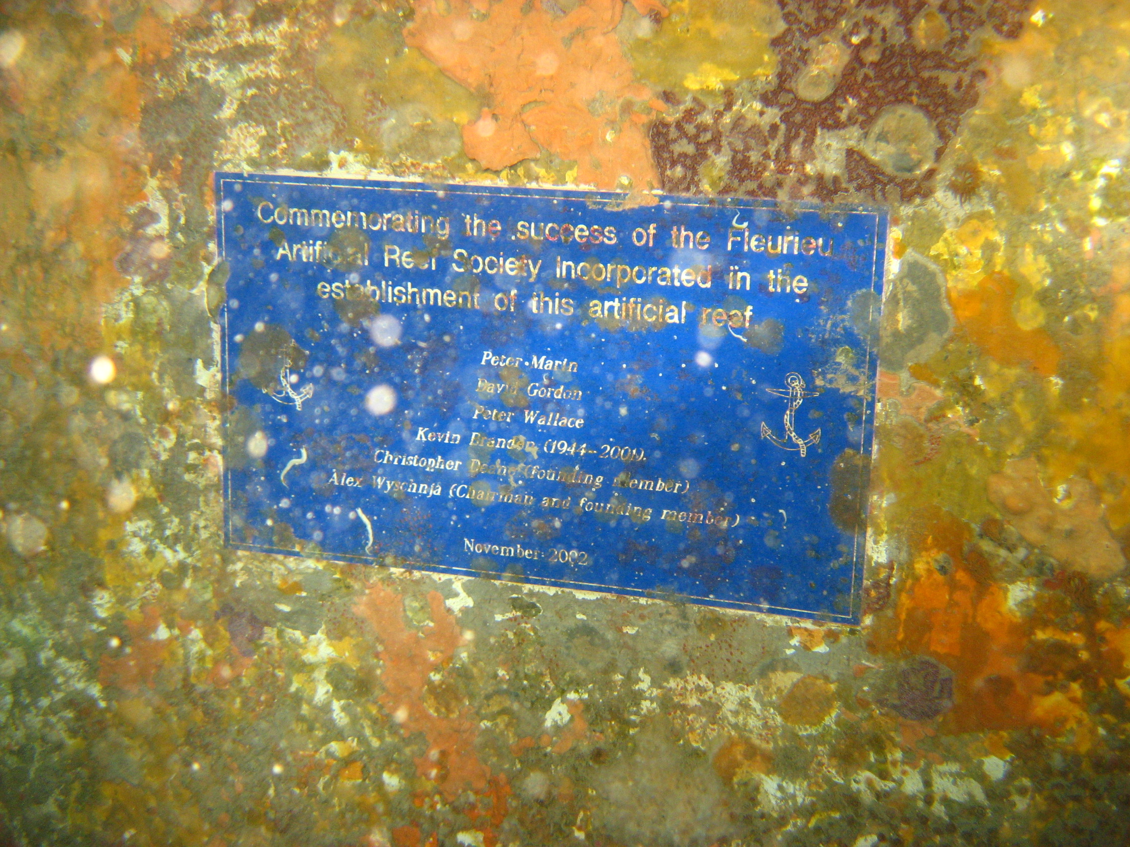 The HMAS Hobart was an Australian guided missile destroyer. In June 2000 the decommissioned vessel was gifted to South Australia to become an artificial reef and world class dive site. On Tuesday 5 November 2002 the Hobart was scuttled in Yankalilla Bay, South Australia. Sitting in 30m of water, the wreck has become home to numerous schools of fish including Leather Jackets, Angel Fish, even Snapper and is now thoroughly covered with a large variety of fauna as can be seen by these photos.